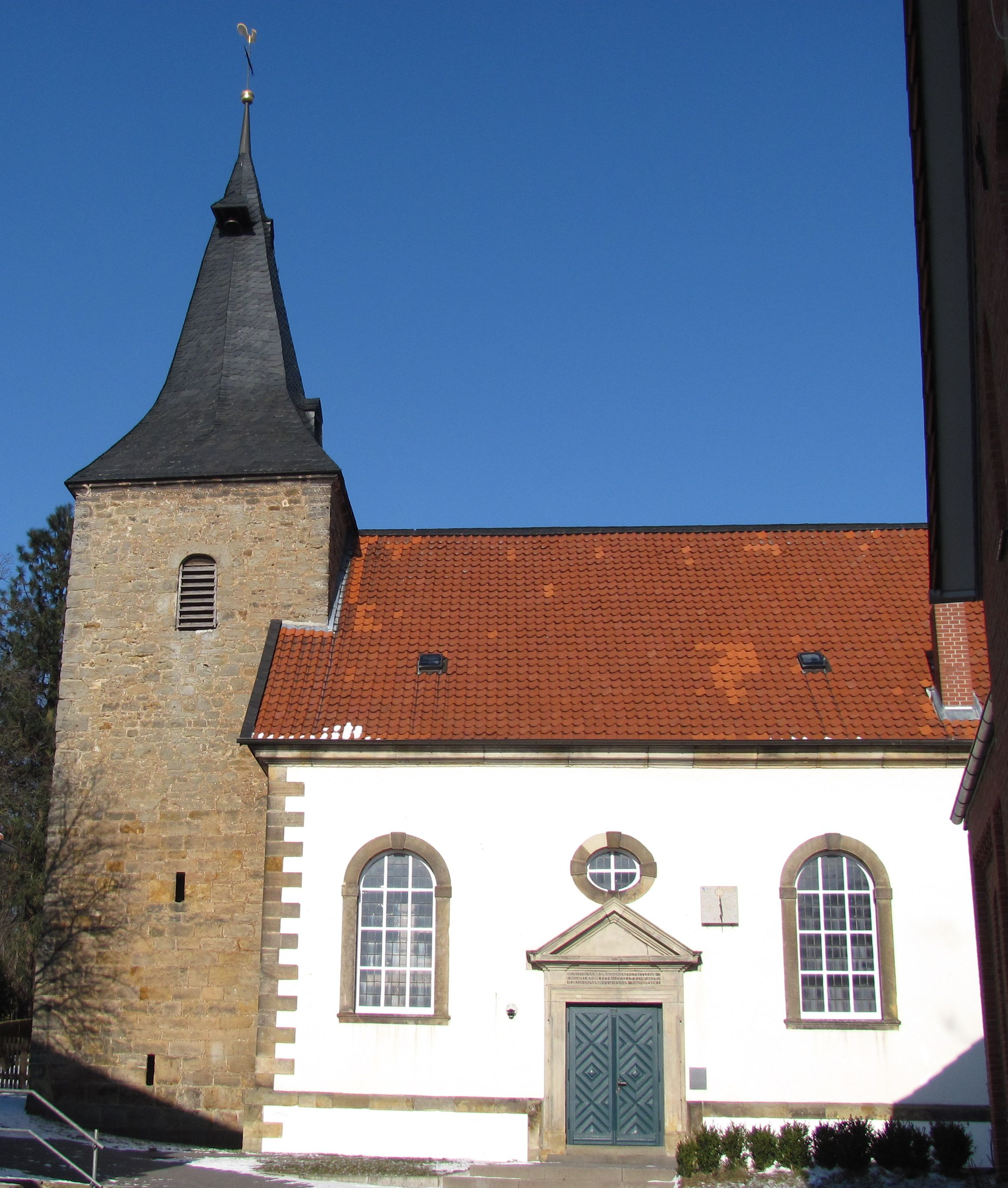 Protestant Church, Holle-Heersum, near Hildesheim, Lower Saxony, Germany.